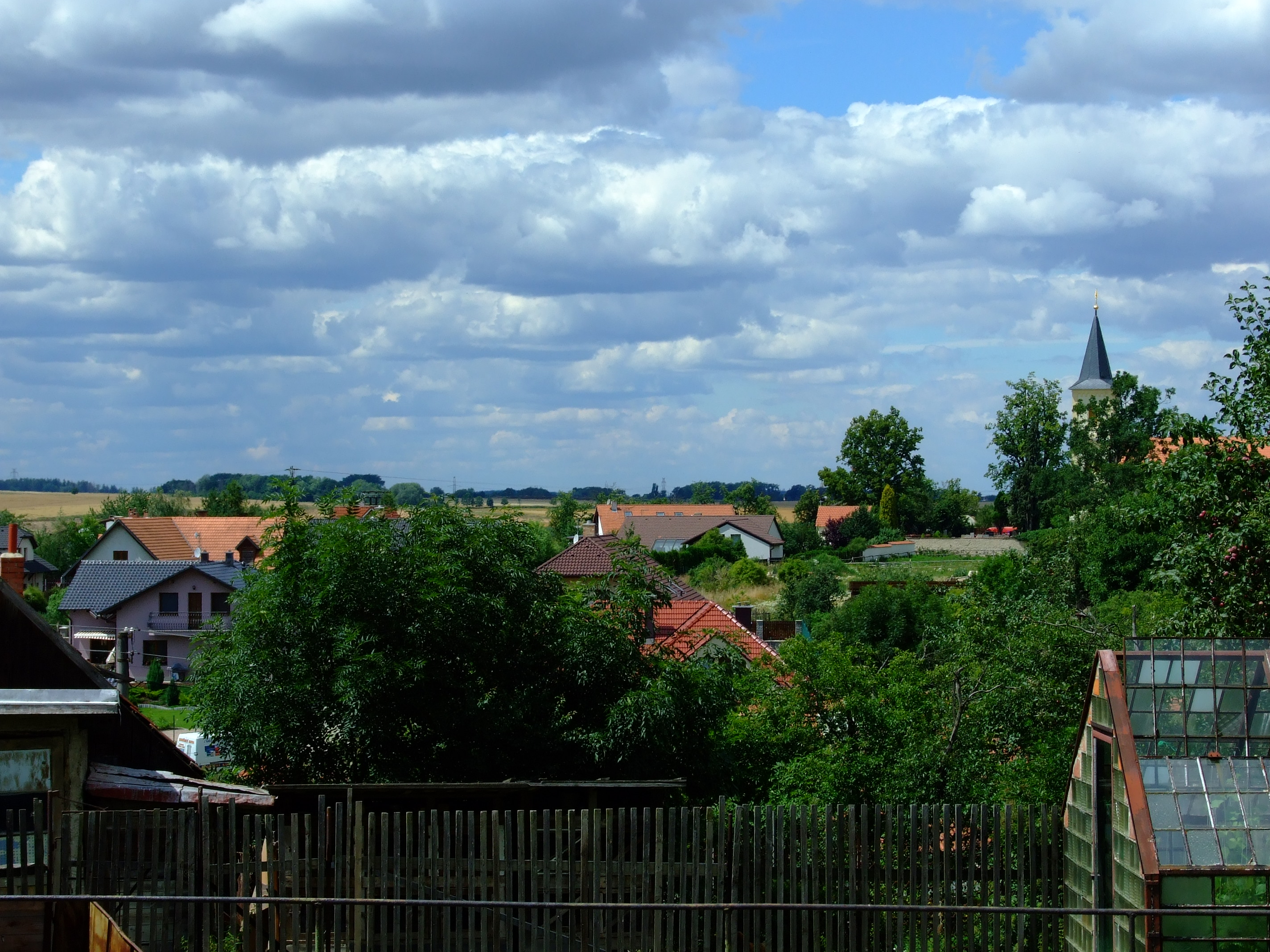 Dolní Jirčany, part of Psáry village southwards from Prague, CZhelp